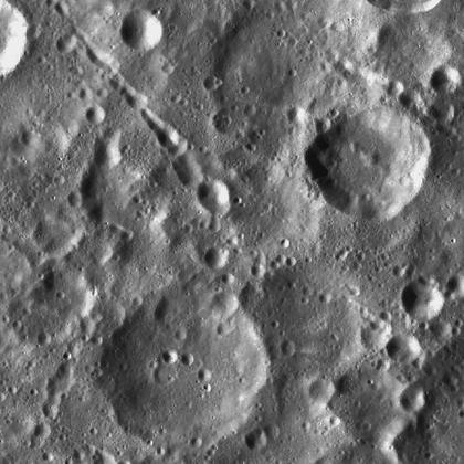 LROC . Prager at bottom of image, satellite C at upper right, Catena Gregory on upper left.